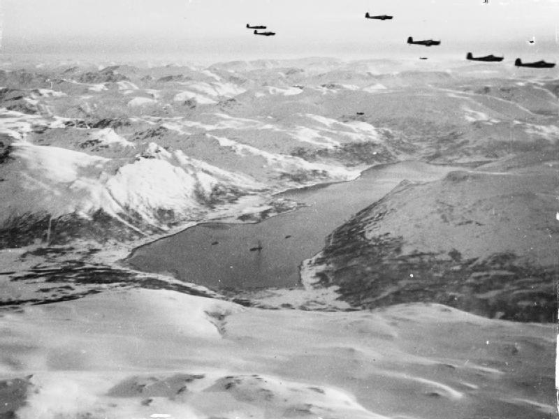 The Royal Navy during the Second World War Photograph shows: The Fairey Barracuda bombers and their fighter escort approaching Alten Fjord. Another fjord along with the snow covered mountains surrounding it can be seen below the aircraft.